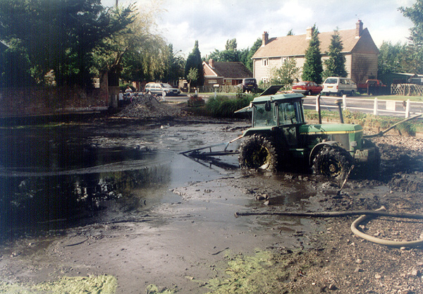 Dredging Bredgar Pond. Algae bloom and an infestation of duck weed suggested something needed to be done so we caught the fish (for safe-keeping) and emptied the pond - sludge from the bottom was spread on a nearby field, a new island was built for the ducks and, so far, it all looks much healthier.